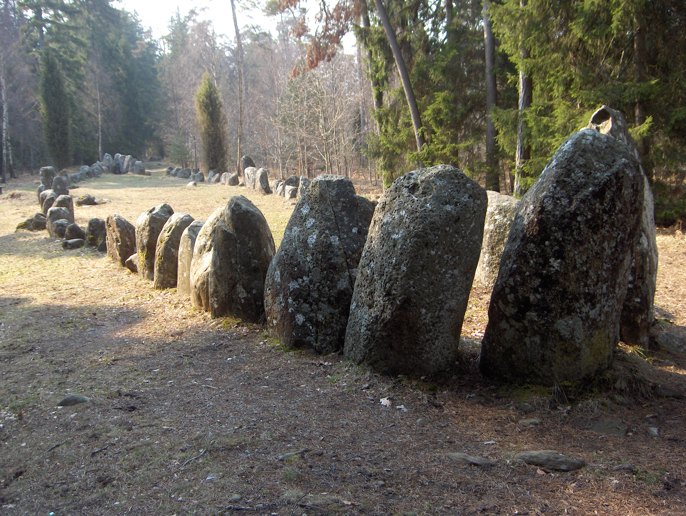 Stone ship in Gnisvärd, Gotland, Sweden